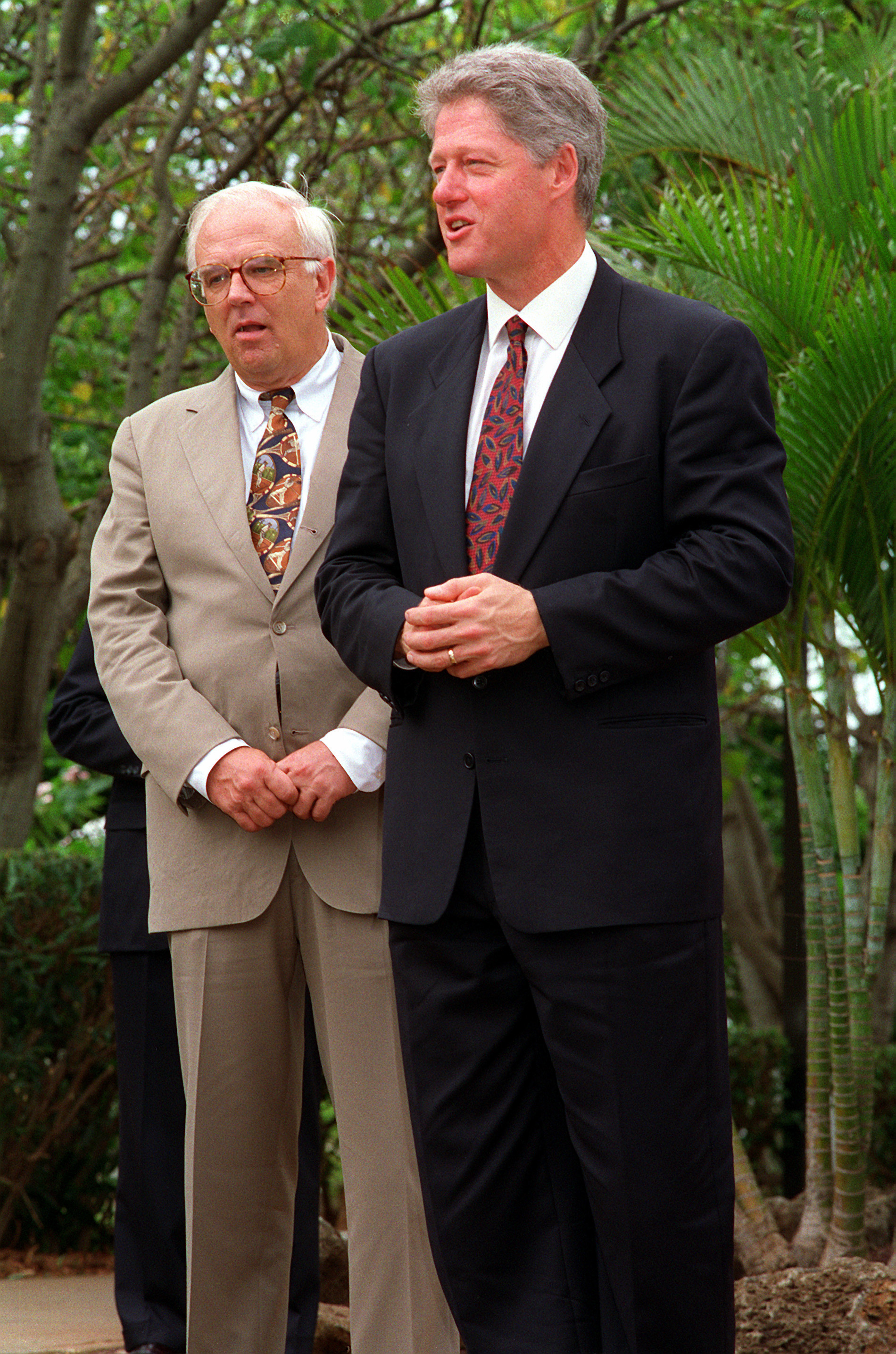 President William Jefferson Clinton and Secretary of Defense Les Aspin stand at Admiral's Landing as they prepare to visit the ARIZONA (BB-39) Memorial. The two men are in Hawaii to tour area military installations.